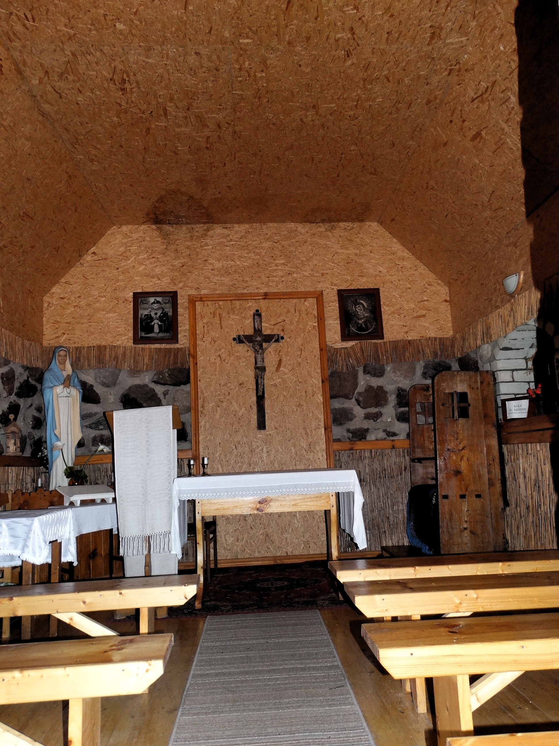 Chapel interior, Visbarai, Tauragė district, Lithuania